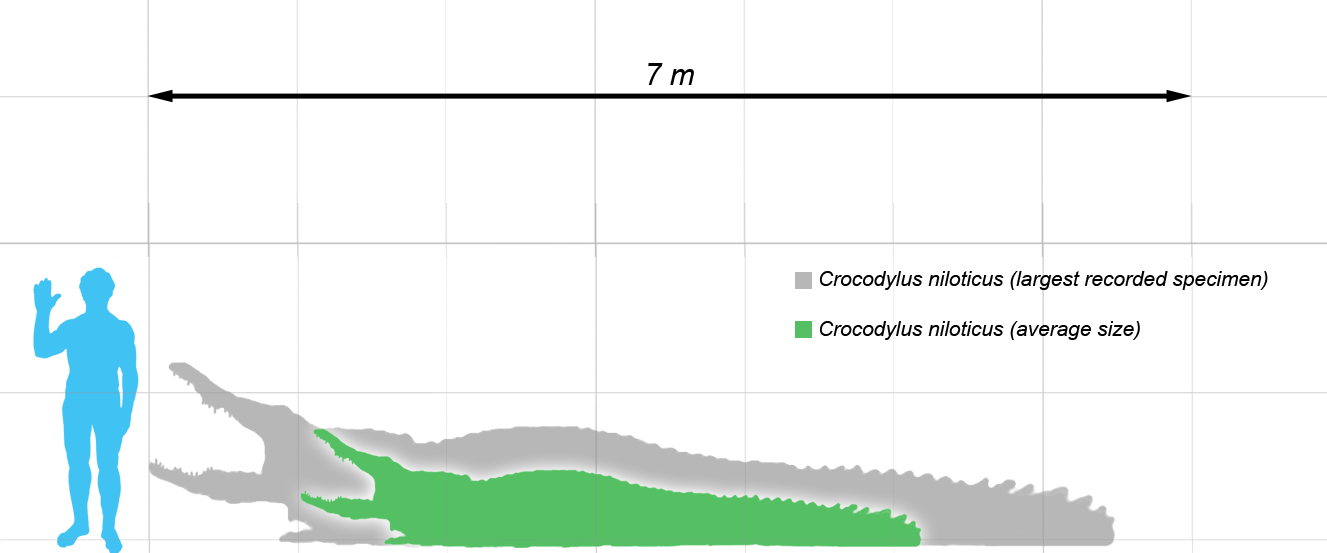 Size comparison of the Nile crocodile Crocodylus niloticus (average and largest recorded specimens) with a human.